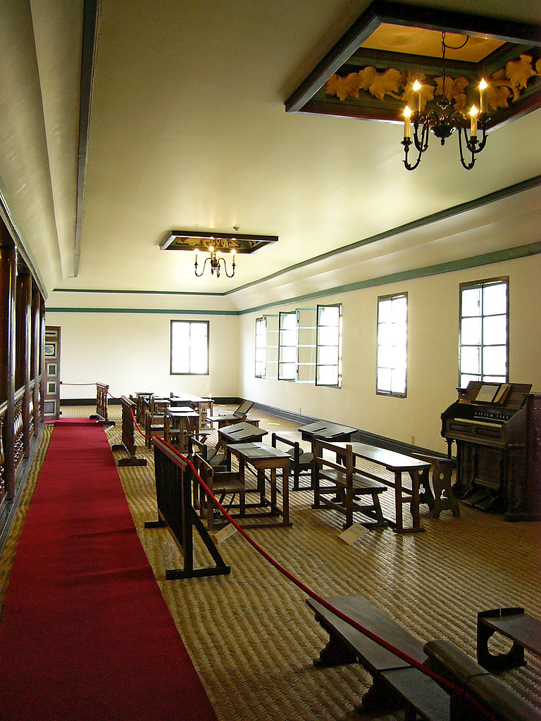 Former Kaichi School in Matsumoto, Japan